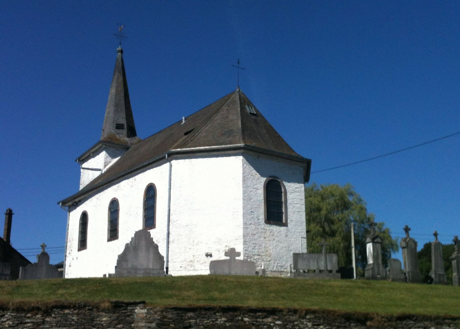 Tavigny - church St Remi